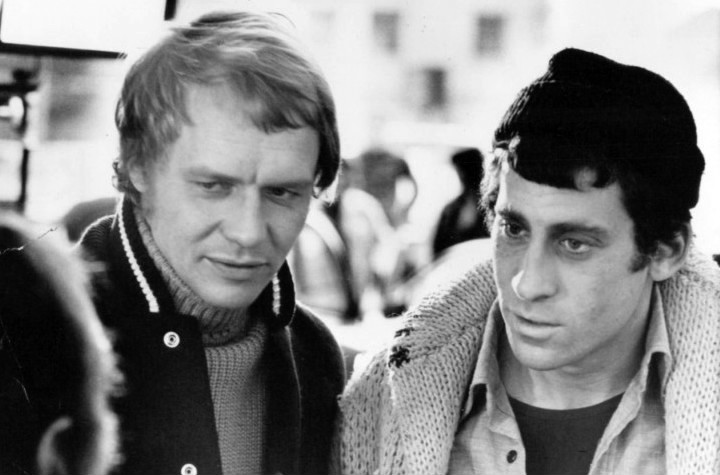 Photo of David Soul and Paul Michael Glazer from the television program Starsky and Hutch.